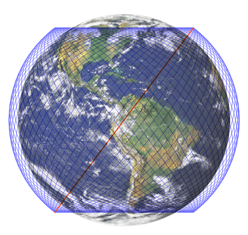 1,584 satellites will be into 72 orbital planes of 22 satellites each, inclination 53°.